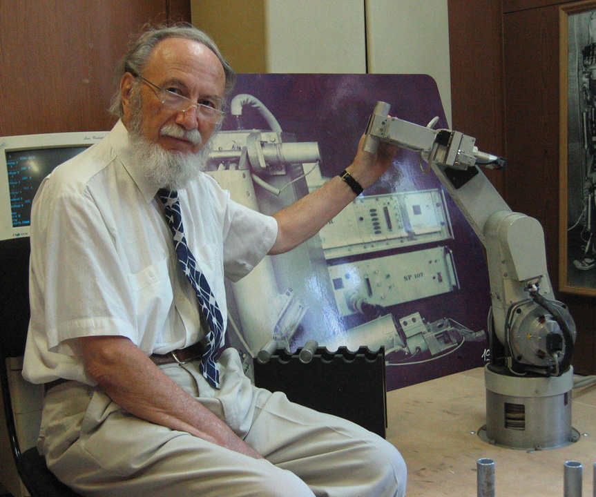 Professor Miomir Vukobratović